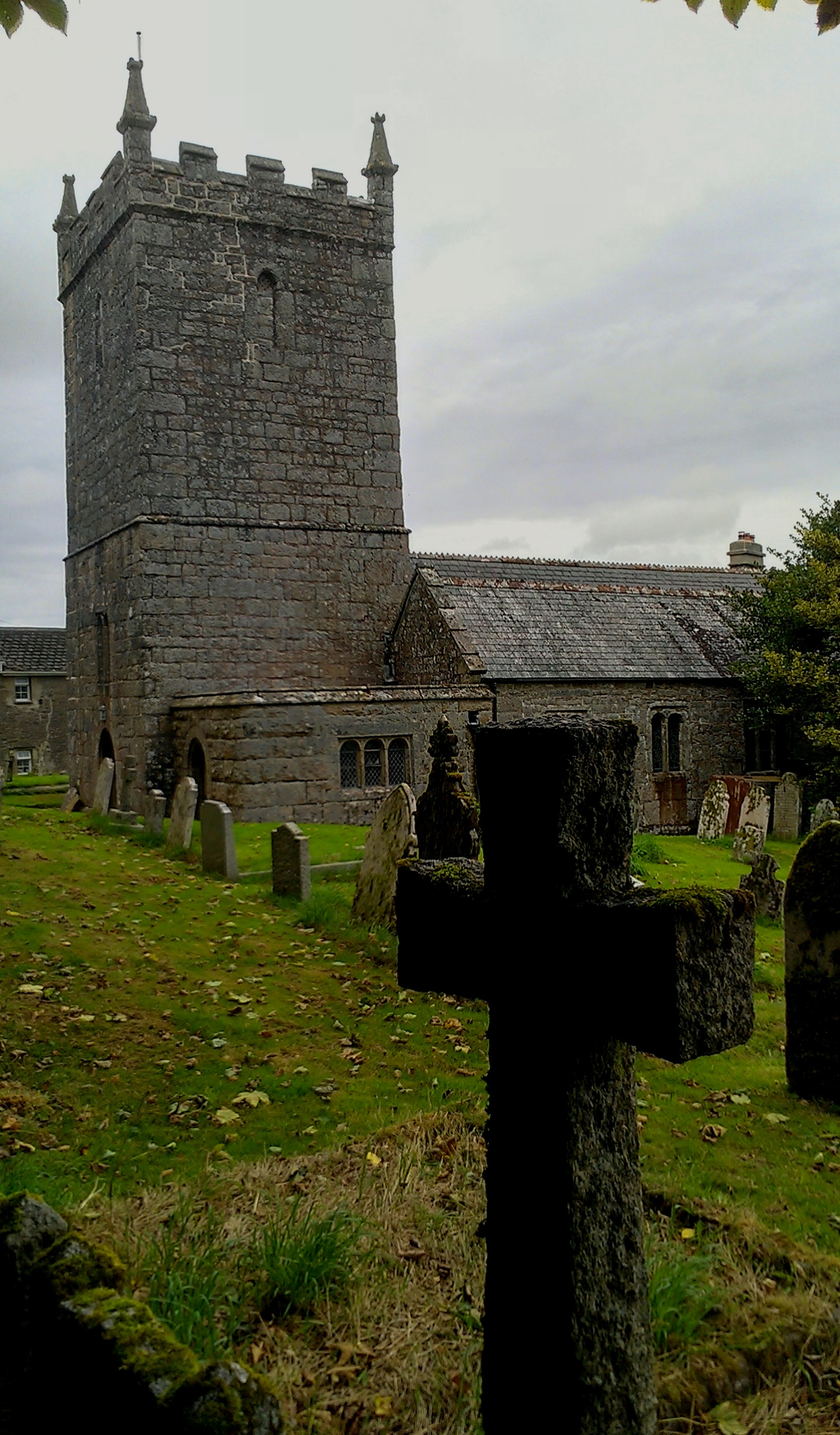 The Church of St. Mary the Virgin in Belstone, Dartmoor, a building with medieval origins.